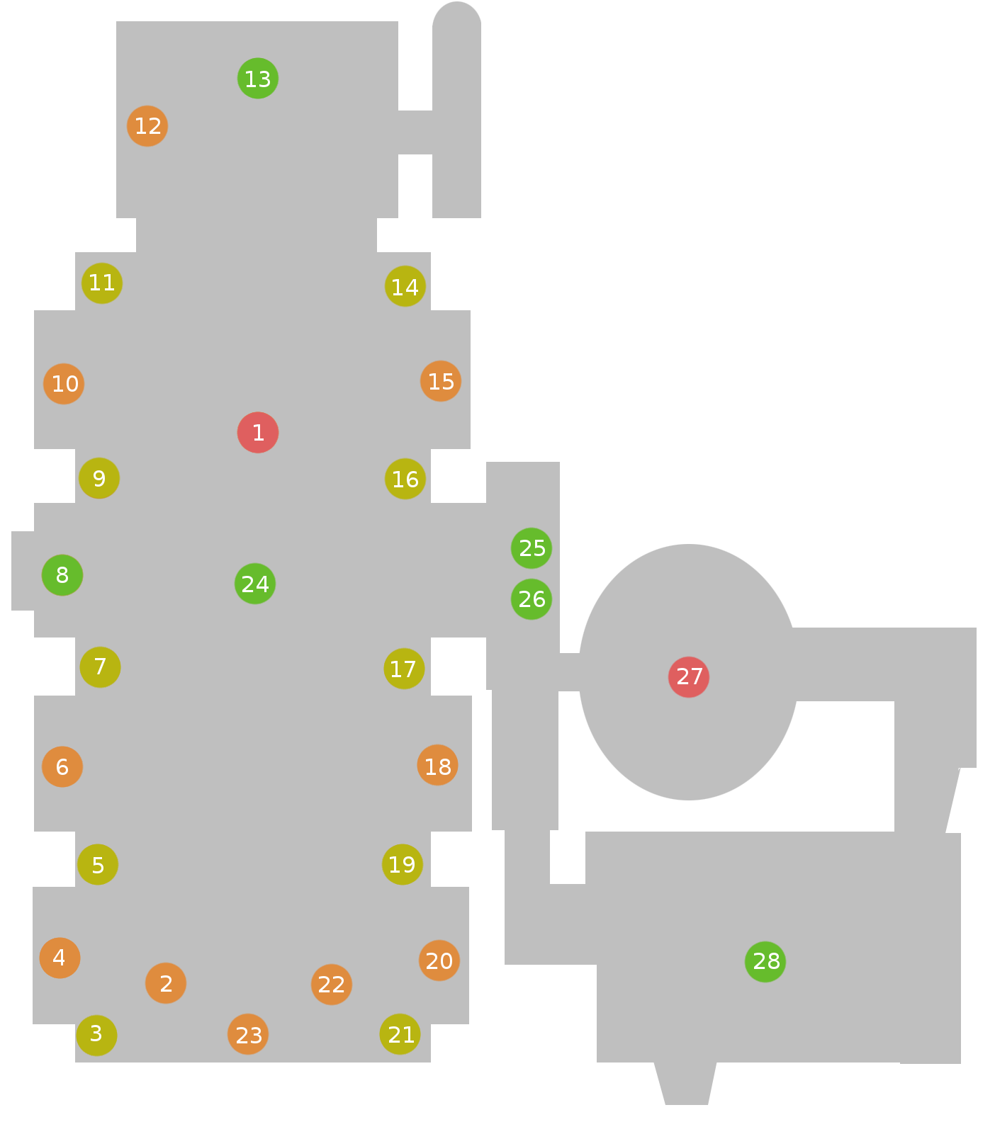 Plan of the Cappella Sansevero showing the location of the works of art